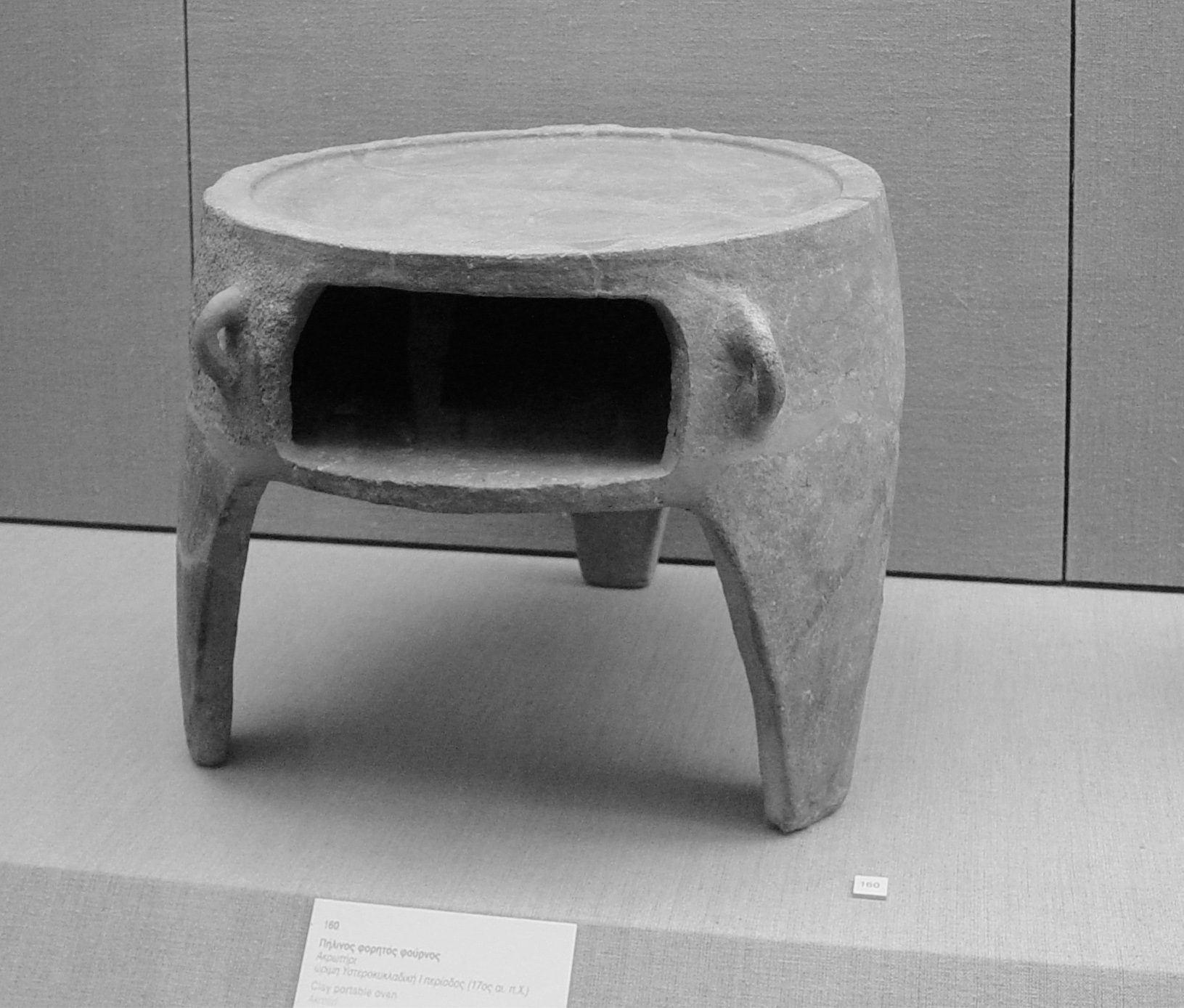 Cycladic (2200-1700 BCE) Portable terra-cotta oven, from an excavation on Santorini